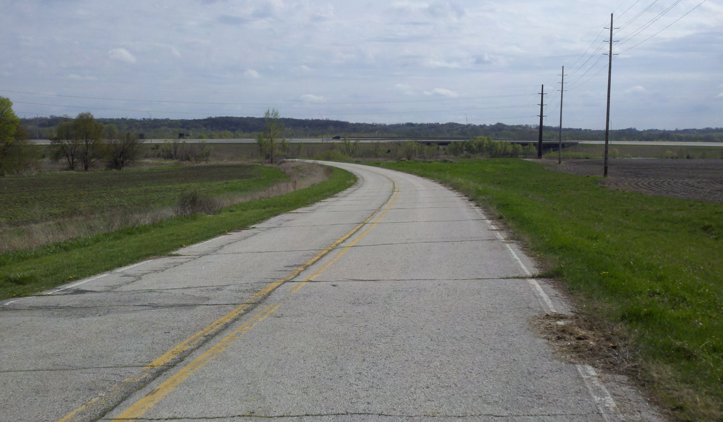 Old Iowa 5 dead ends just north of the US 65 bypass northeast of Carlisle, Iowa.